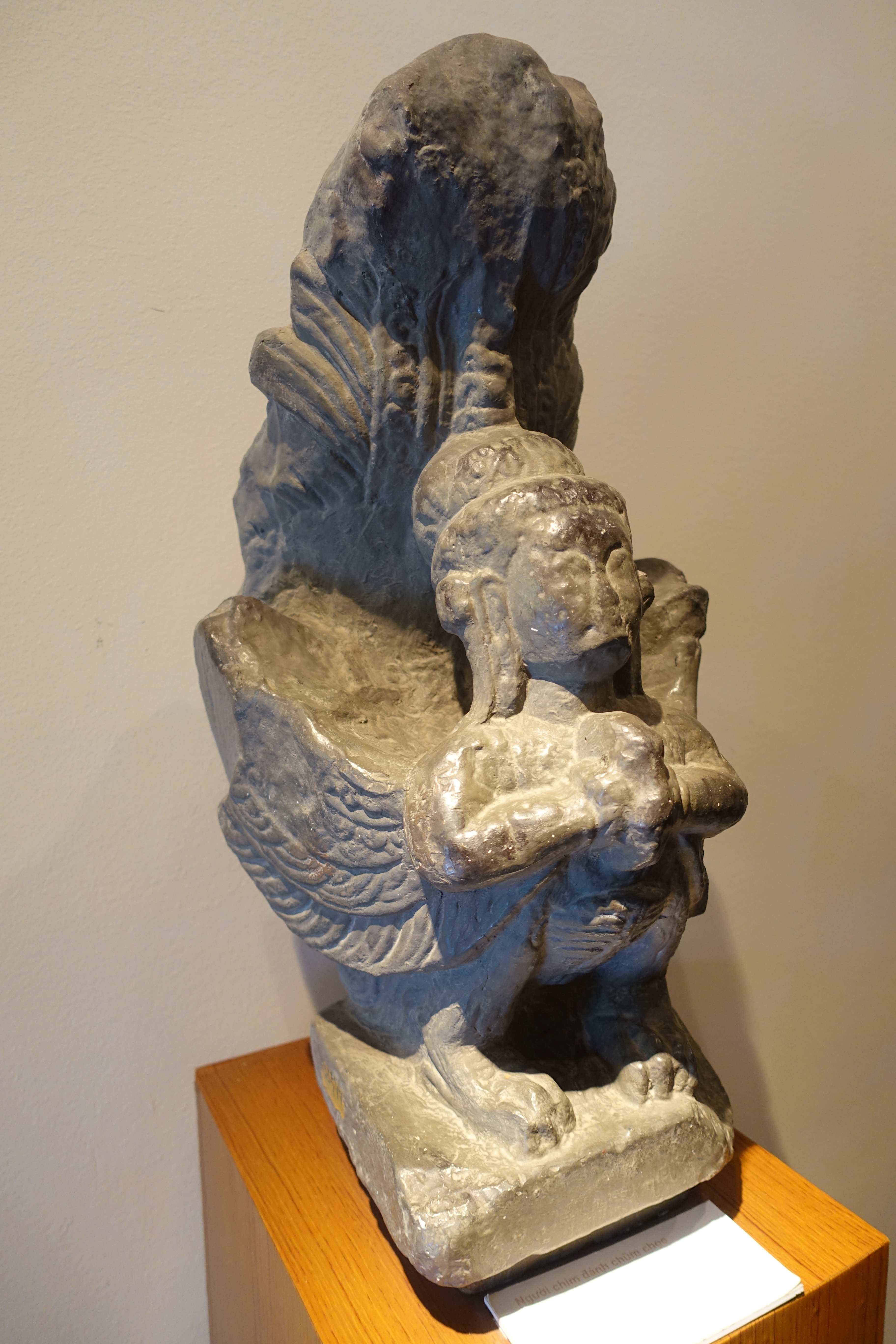 Exhibit in the Vietnam National Museum of Fine Arts - Hanoi, Vietnam. This artwork is old enough so that it is in the public domain.